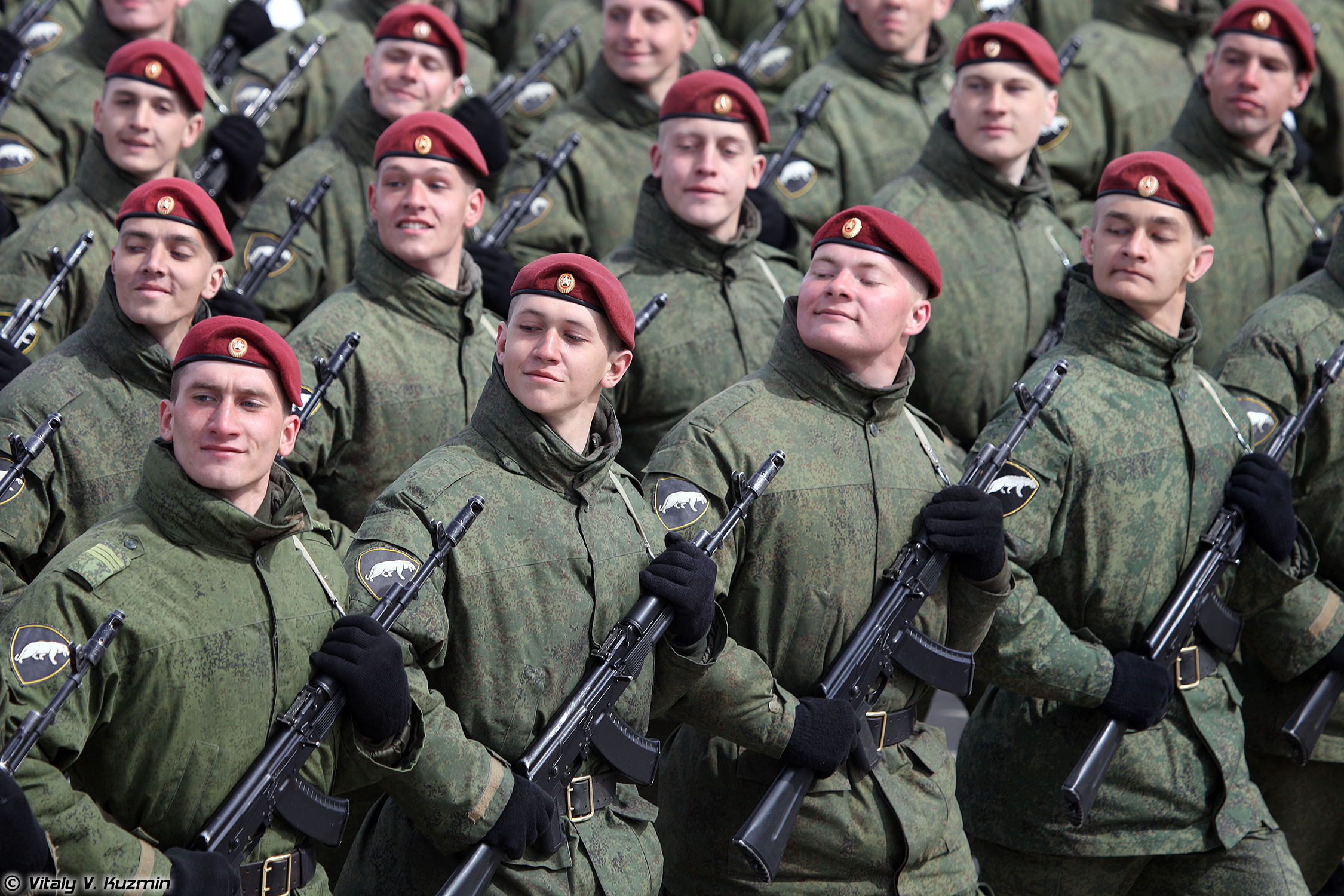 Separate Operational Purpose Division (ODON or Dzerzhinsky Division)